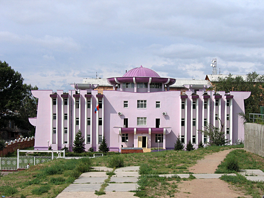 Consulate-General of Mongolia in Ulan-Ude